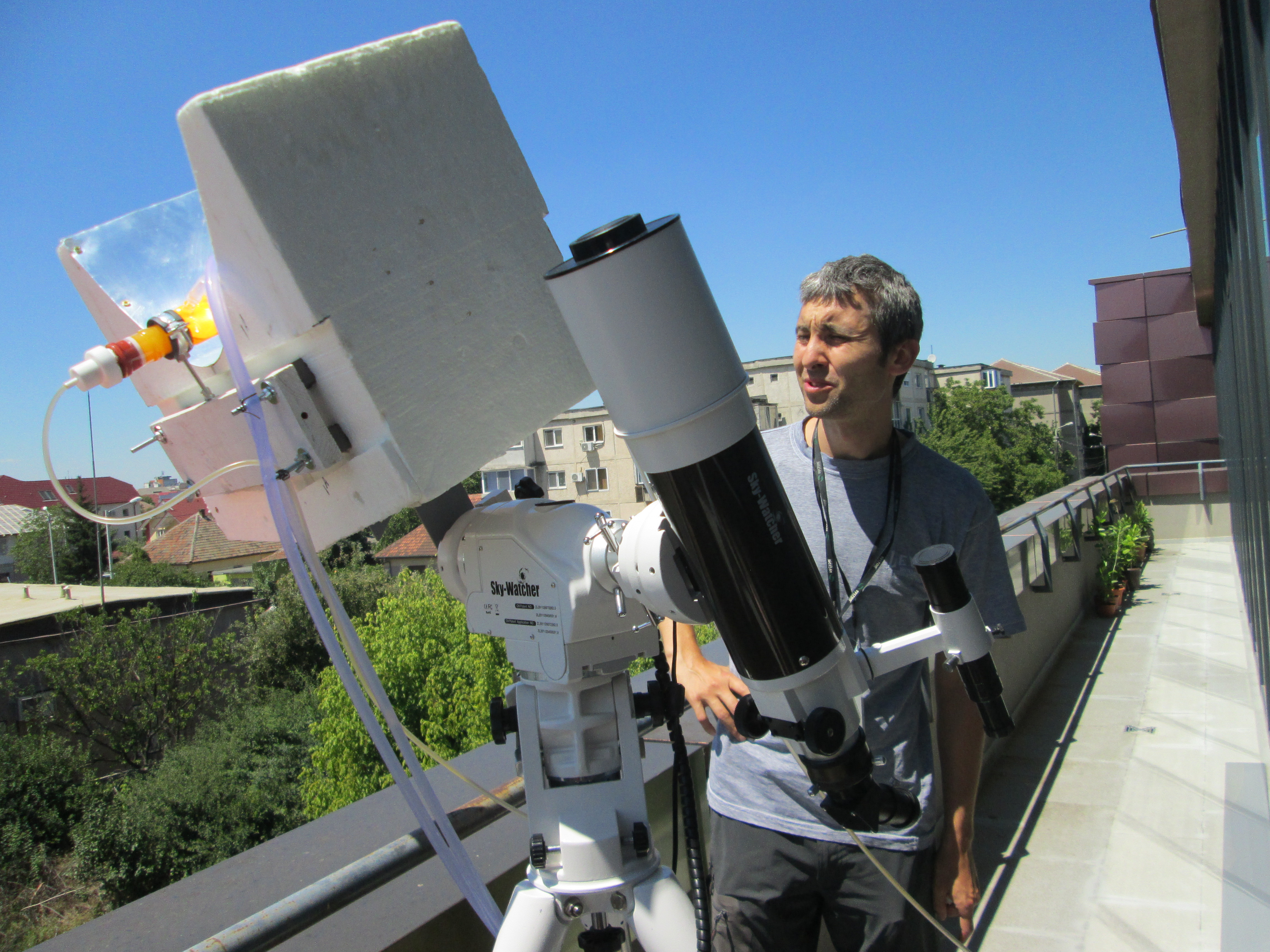 Photoreactor with automatic Sun Tracking and a LERF (Timisoara, Romania) researcher (Radu Banica)